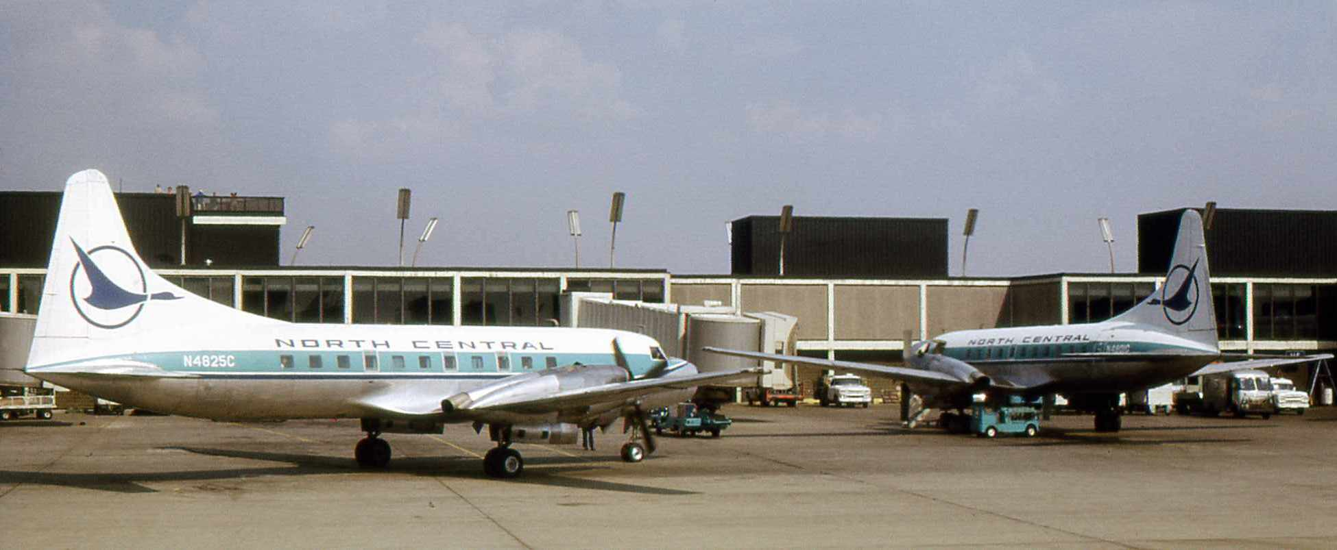 North Central Airlines Convair 580 N4825C, c/n 380, delivered to Delta Airlines on February 24, 1967. Sold to North Central Airlines. Here is taken at Chicago Airport in 1973.